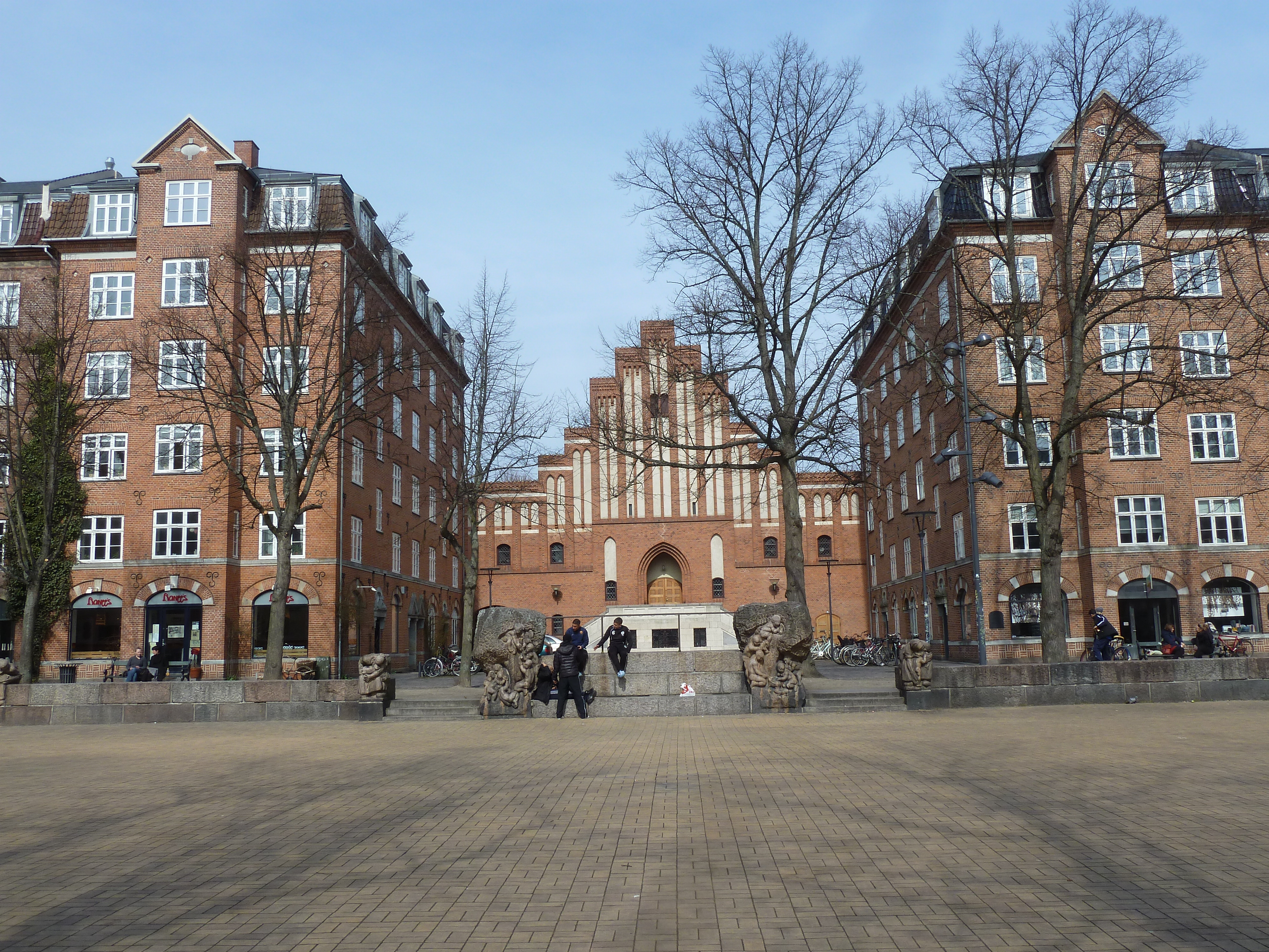 Blågårds Kirke in the Nørrebro district of Copenhagen, Denmark